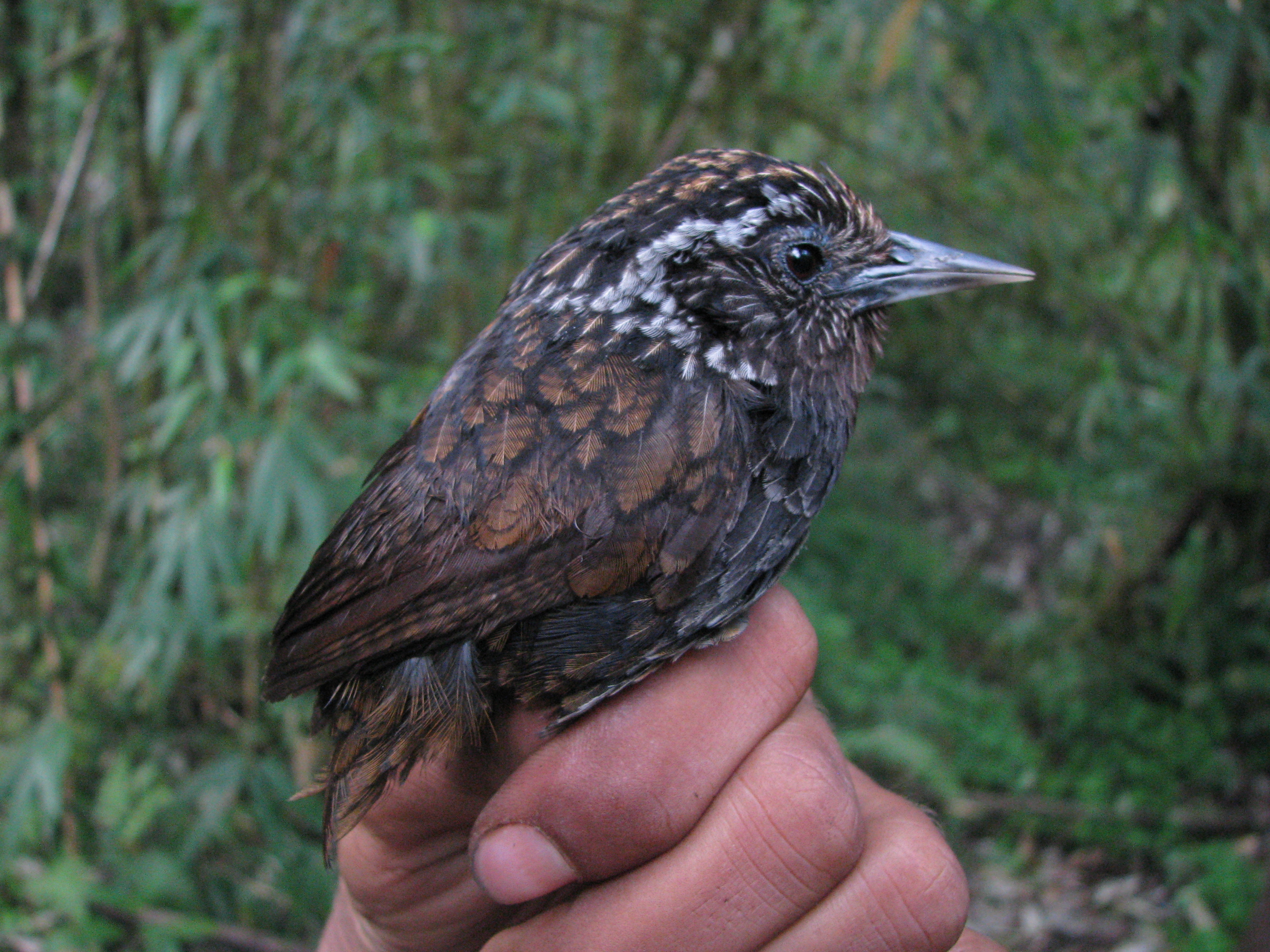 Wedge-billed Wren-Babbler (Sikkim Wedge-billed Babbler) photographed in the hand after being netted and ringed at Eaglenest Wildlife Sanctuary, Arunachal Pradesh, India